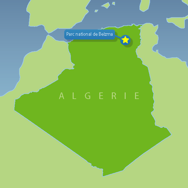 Map of National parks of Algeria, Belzma National park